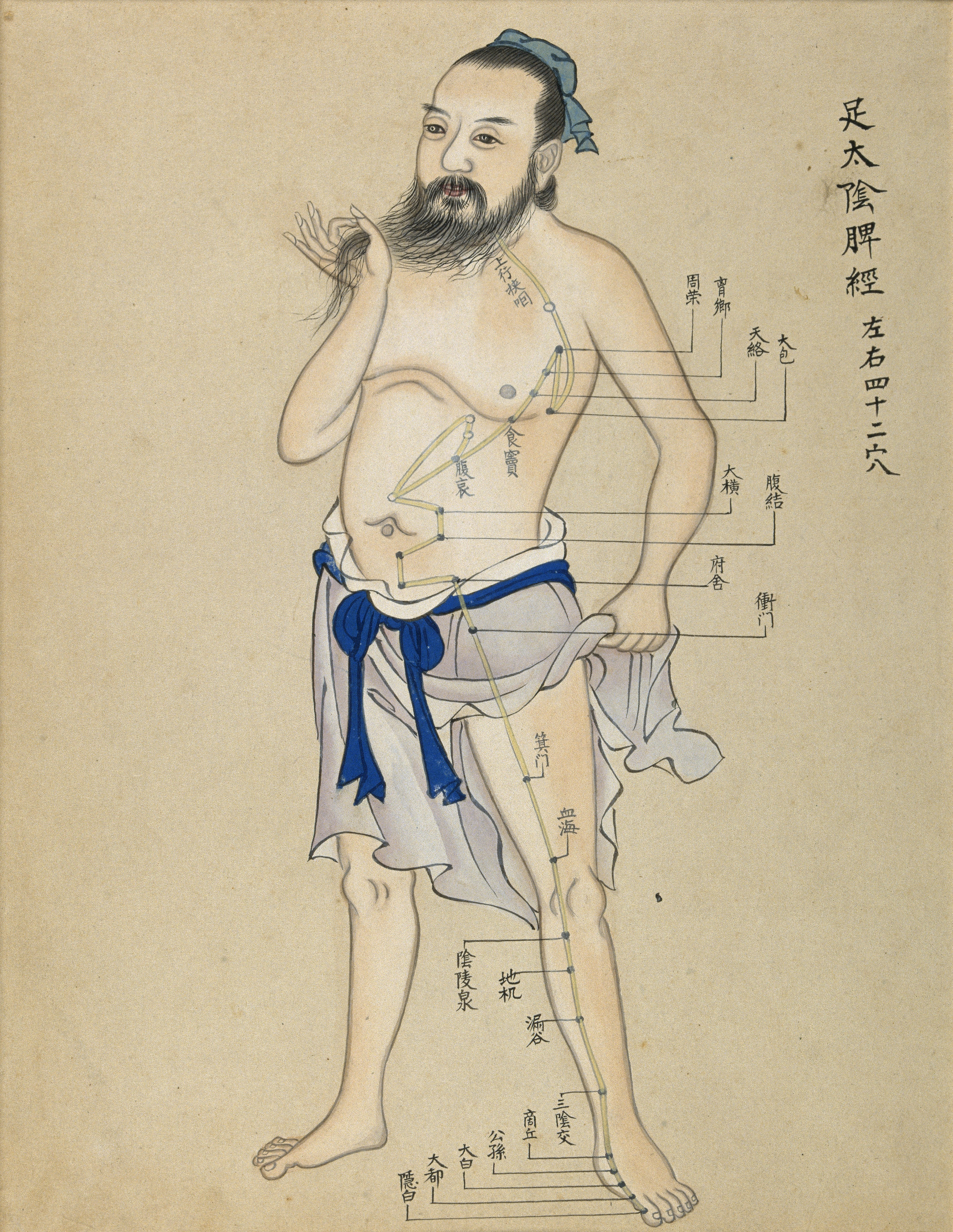 Acupuncture chart of a standing man (n.d.) Iconographic Collections Keywords: Acupuncture